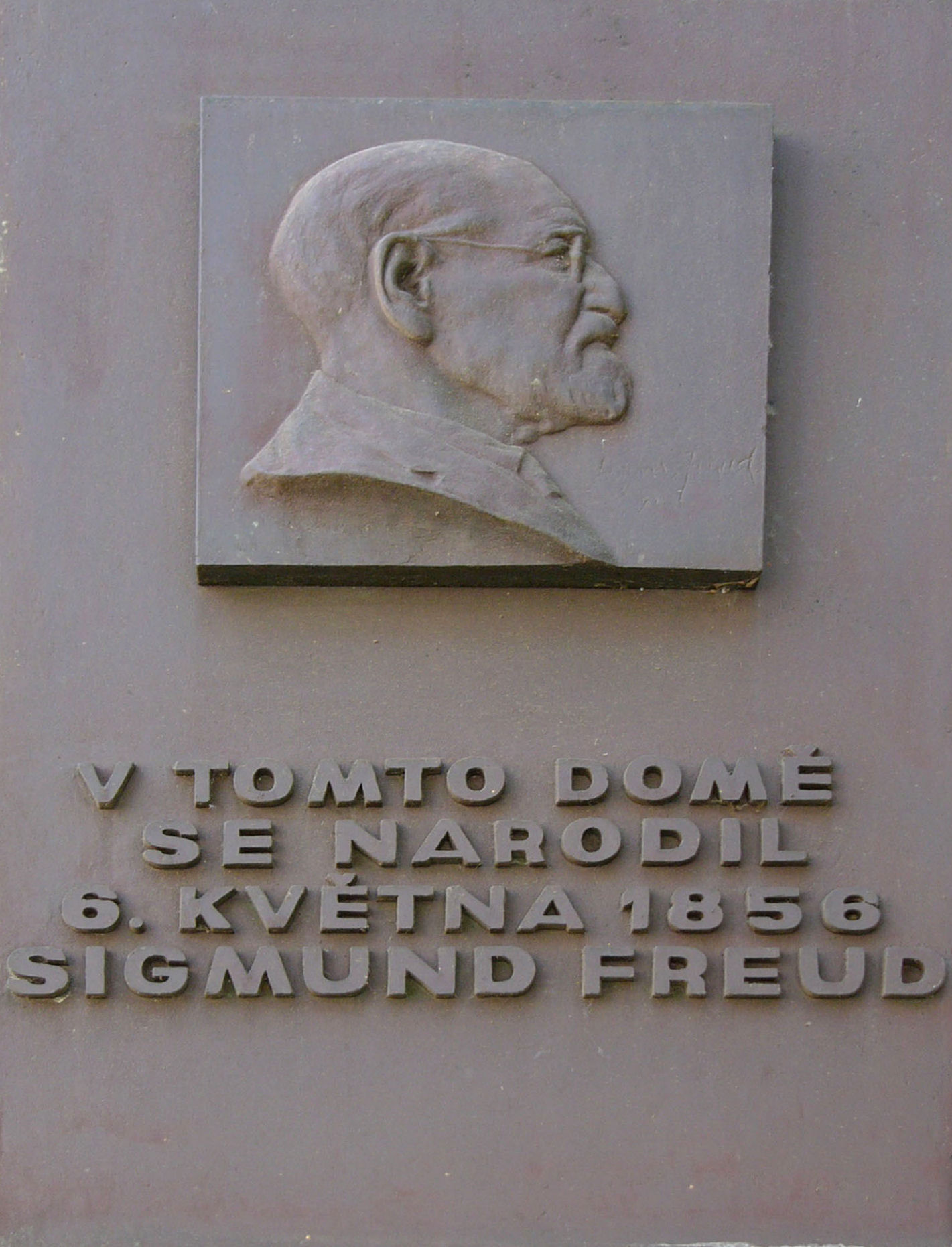 Memorial plaque of Sigmund Freud at his birthplace in Pribor (Příbor), The Czech Republic.